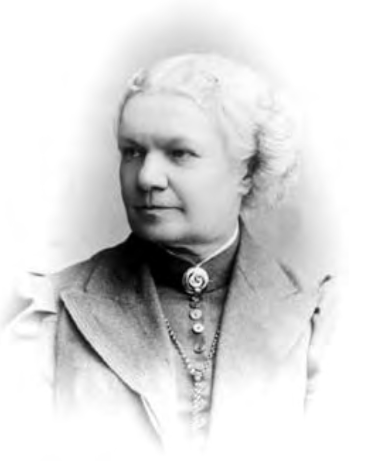 Finnish women's rights activist and benefactor